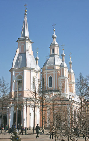 St. Andrew's cathedral in Saint Petersburg